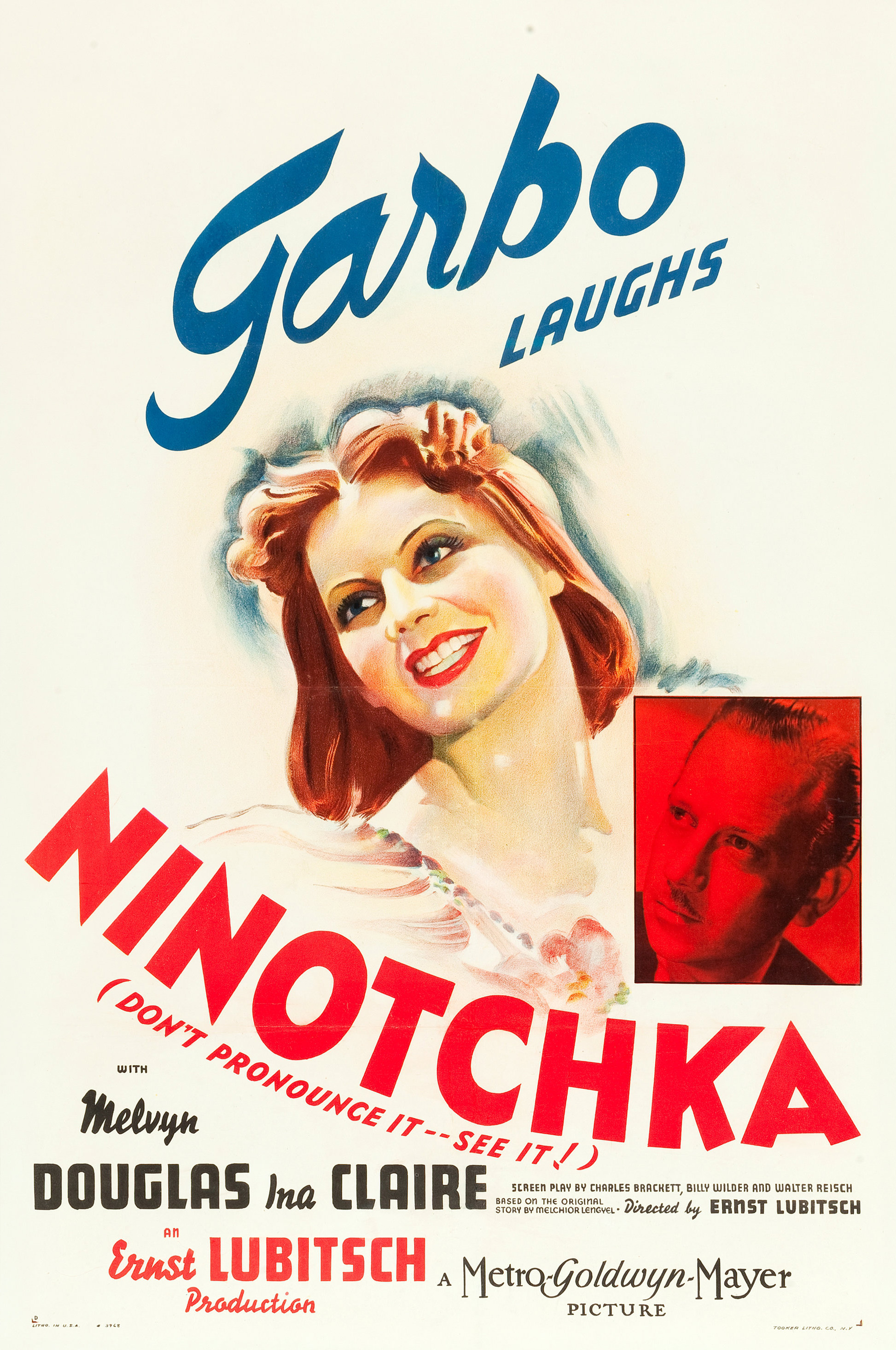 "Style D" theatrical release poster for the 1939 film Ninotchka.